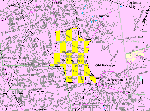 U.S. Census 2000 reference map for Bethpage